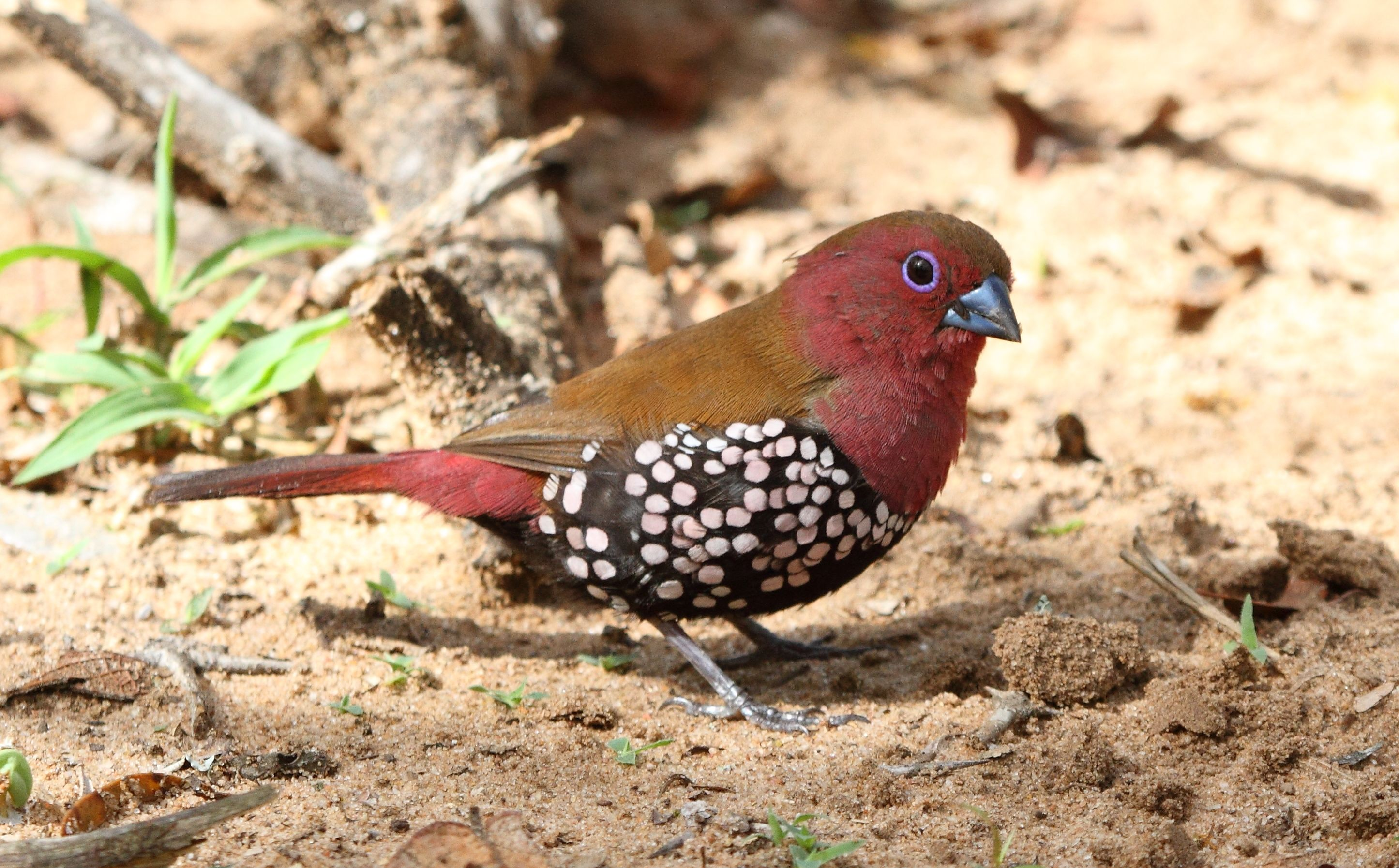 Male pink-throated twinspot (Hypargos margaritatus) at Kumasinga hide, Mkhuze Game Reserve.